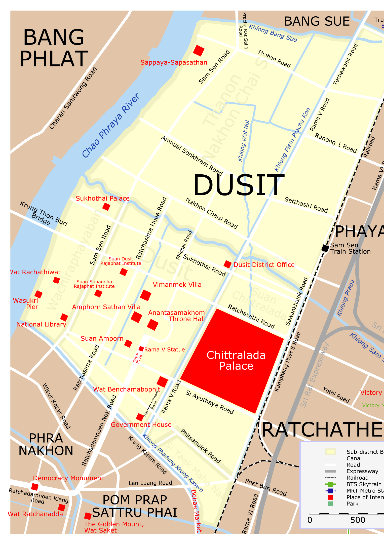 Map of Dusit District, Bangkok.